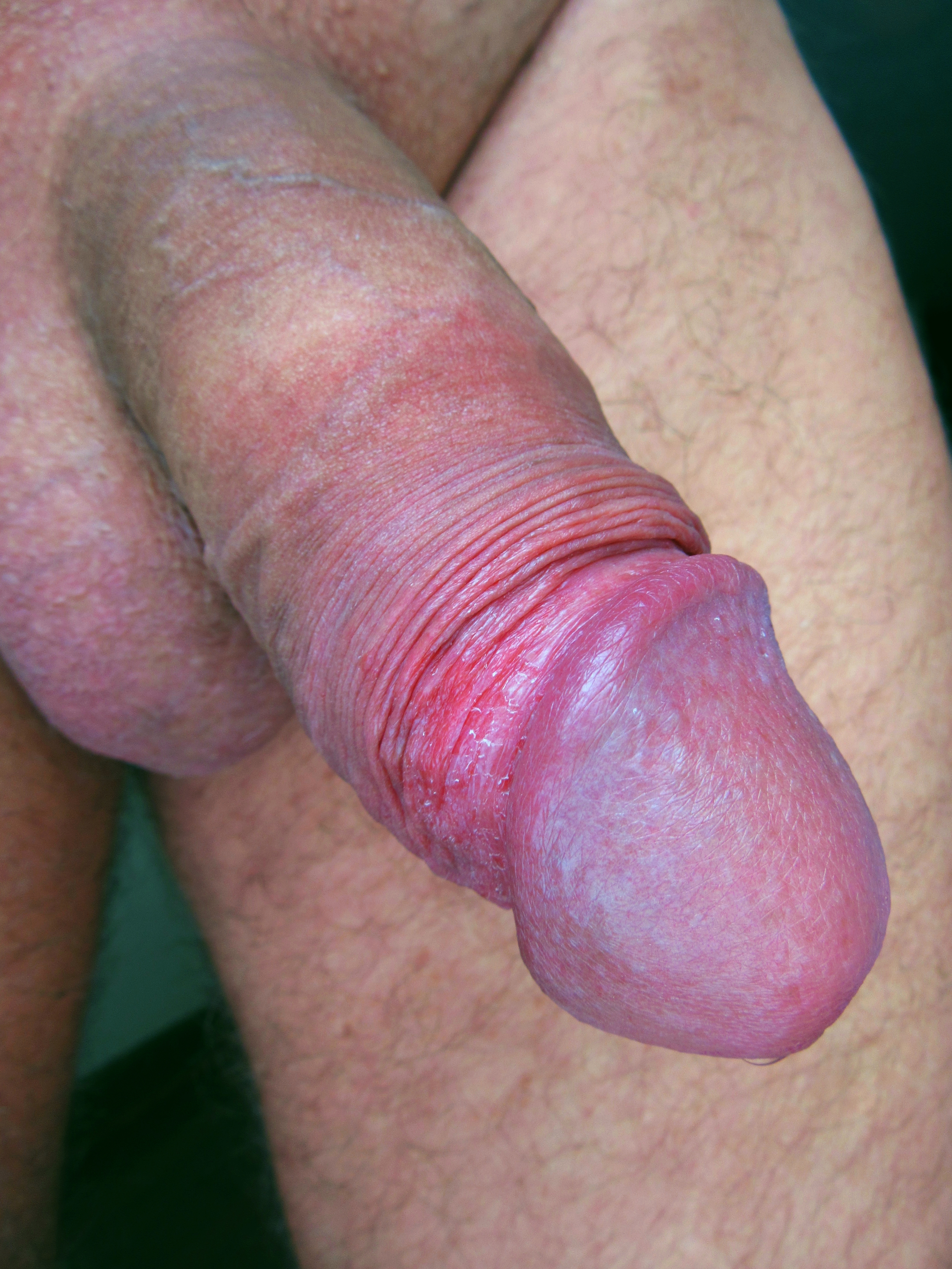 Severe balanoposthitis